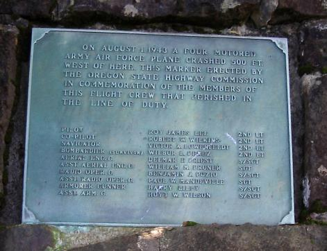 This is an image of a plaque regarding a B-17 that crashed on Cape Lookout, Oregon, during World War II. I took the image myself. The plaque reads: On August 1, 1943 a four motored Army Air Force plane crashed 500 ft. west of here. This marker erected by the Oregon State Highway Commission in Commemoration of the members of this flight crew that perished in the line of duty. Pilot Roy James Lee 2nd Lt Co-pilot Robert W. Wilkins 2nd Lt Navigator Victor A. Lowenfeldt 2nd Lt Bombardier (survivor) Wilbur L. Penez 2nd Lt Aerial Eng. G. Delmar E. Priest S/Sgt Radio Oper. G. Benjamin J Puzio S/Sgt Asst Radio Oper. G. Paul W. Mandeville Sgt Armorer Gunner Harry Lilly S/Sgt Asst Arm. G. Hoyt W. Wilson S/sgt